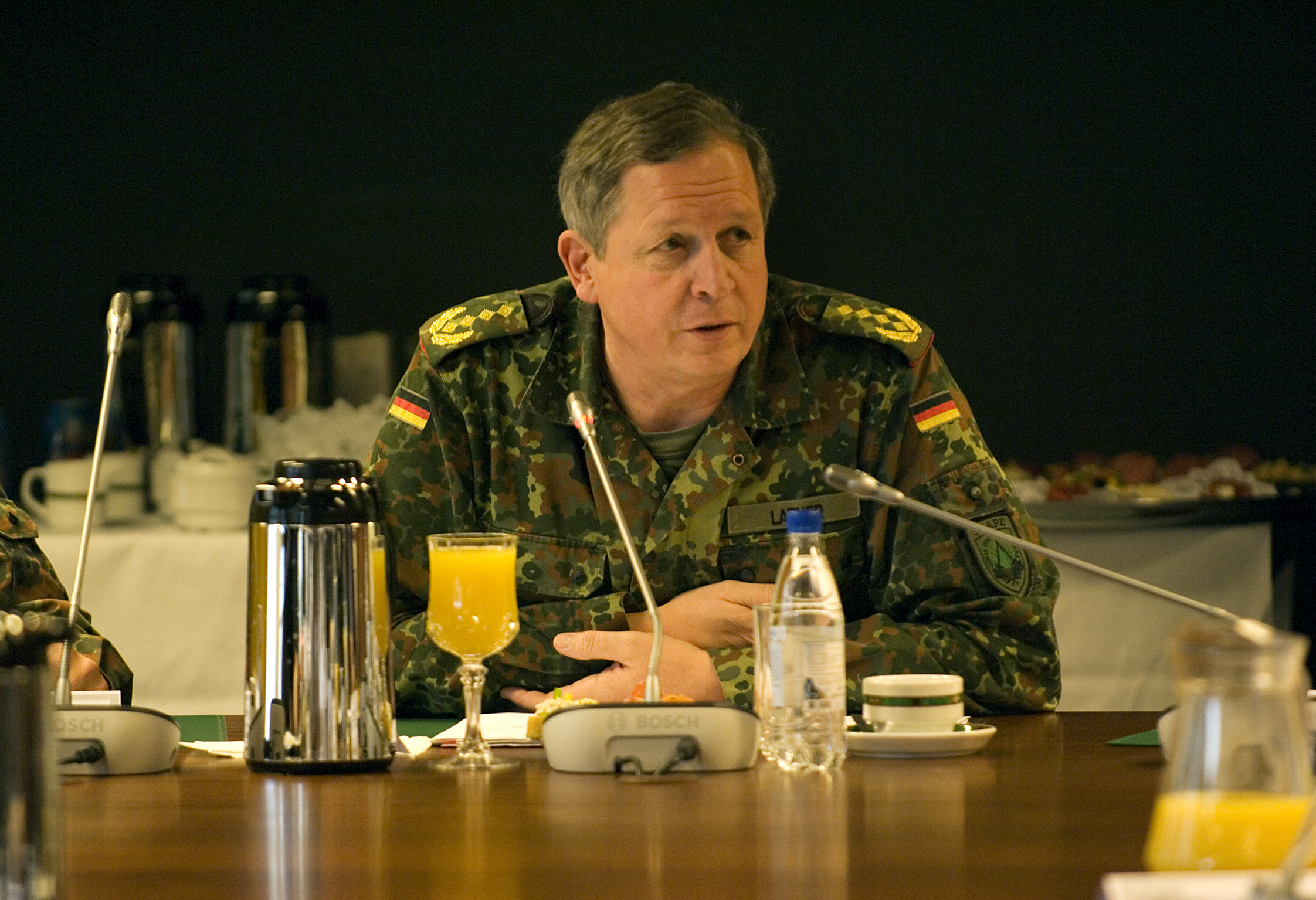 Chief of Staff (COS) Media Round-table. COS General Karl-Heinz Lather periodically invites German journalists to update them on the current state of affairs in ACO and ACO missions.